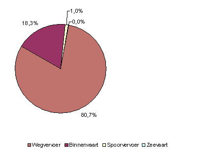 bron CBS/AVV